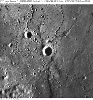 Image AS15-M-2481. Toscanelli crater is in the center. The 6-km crater to its upper left is Wollaston N. The rilles are part of Rimae Aristarchus, and the shadow-casting scarp visible at bottom center, and extending north through Toscanelli itself is the northern part of Rupes Toscanelli.